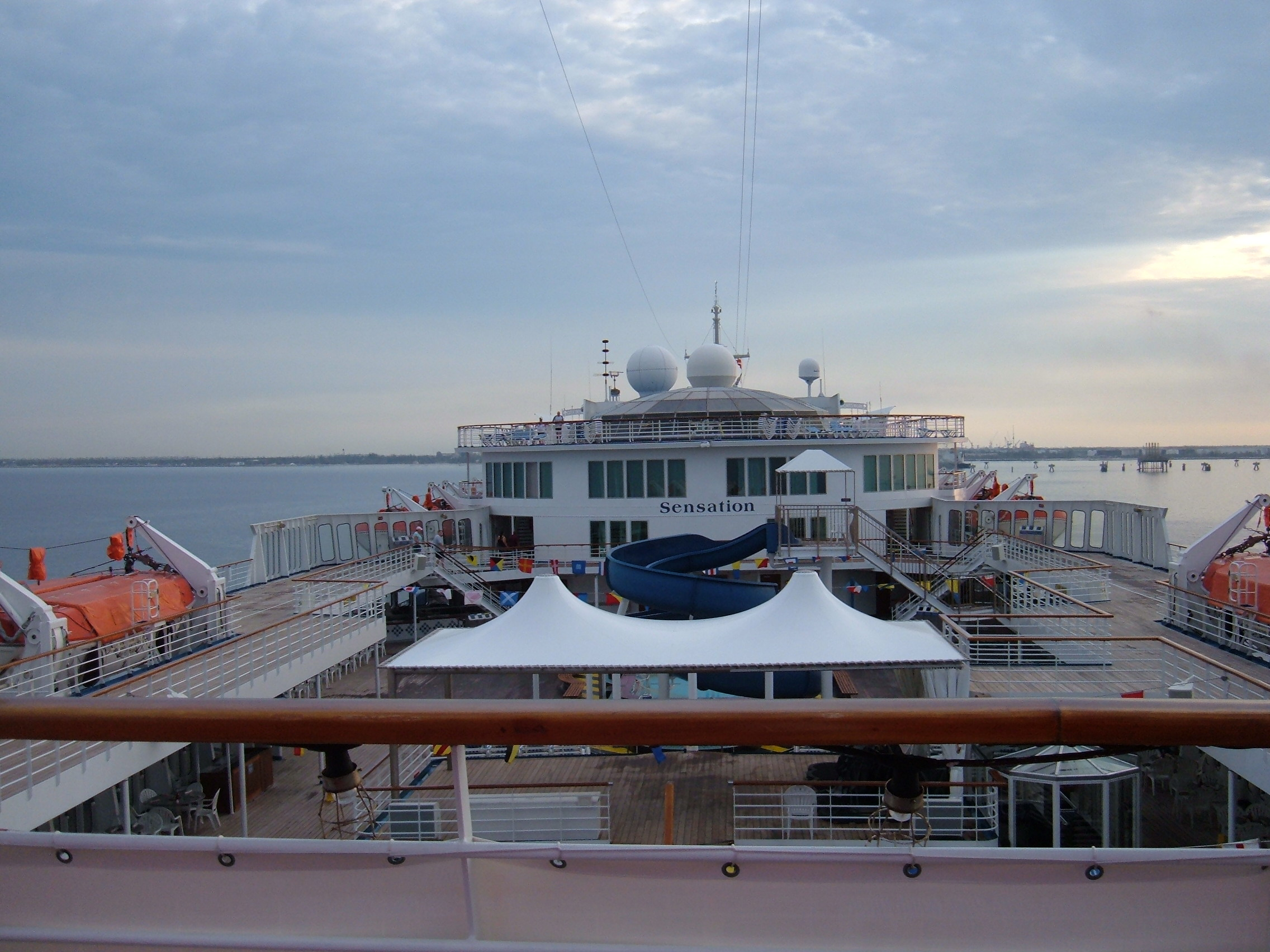 The verandah deck of the Carnival Sensation en route to Freeport, The Bahamas (in background).